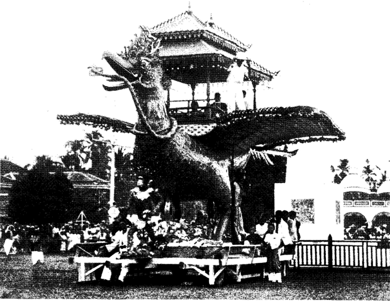 Burung Petala Indera of 1933